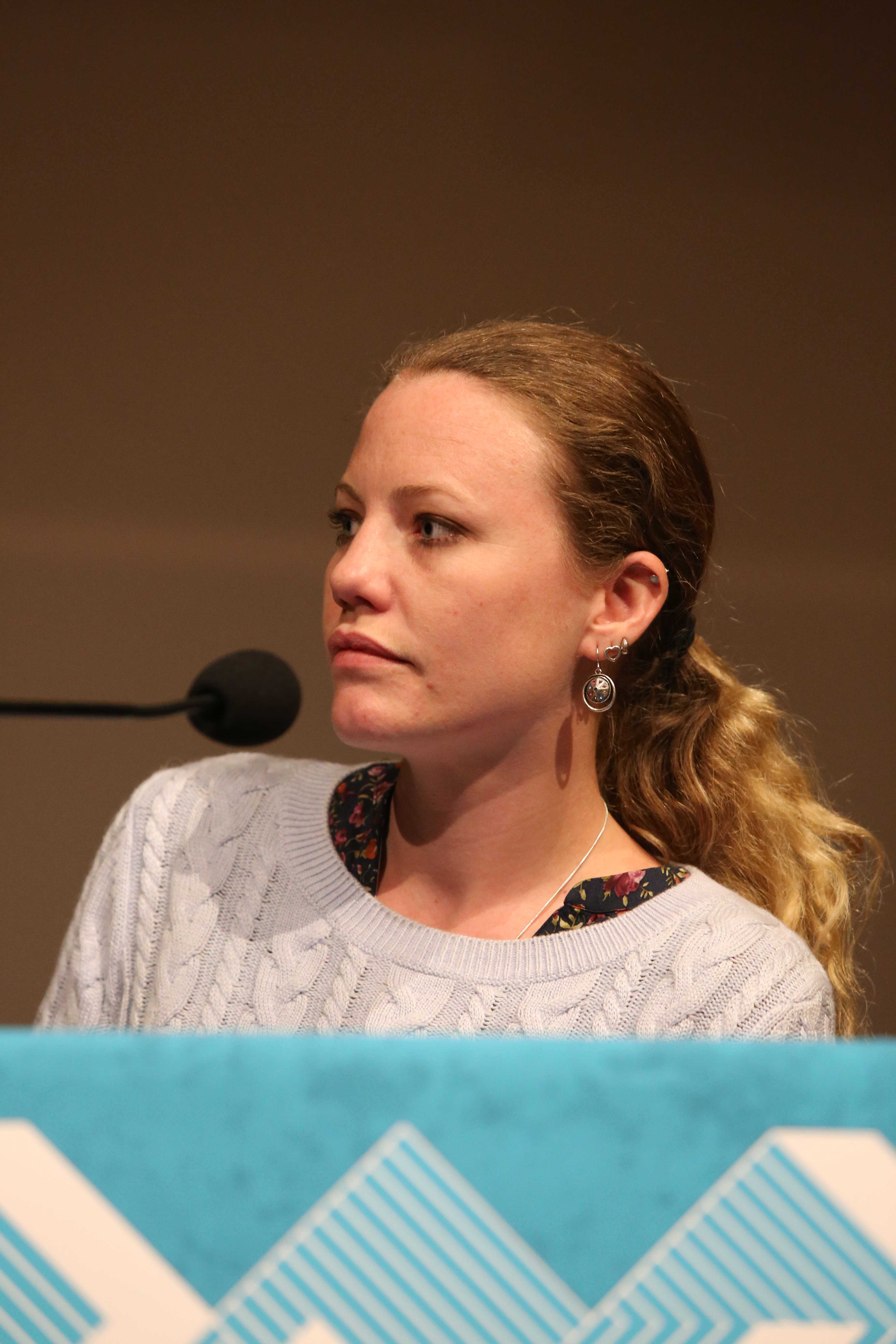 Sarah Harrison at the 30th Chaos Communication Congress in Hamburg, 2013